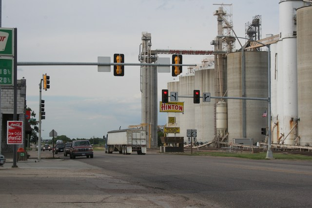 Vacation Hinton IA (5)